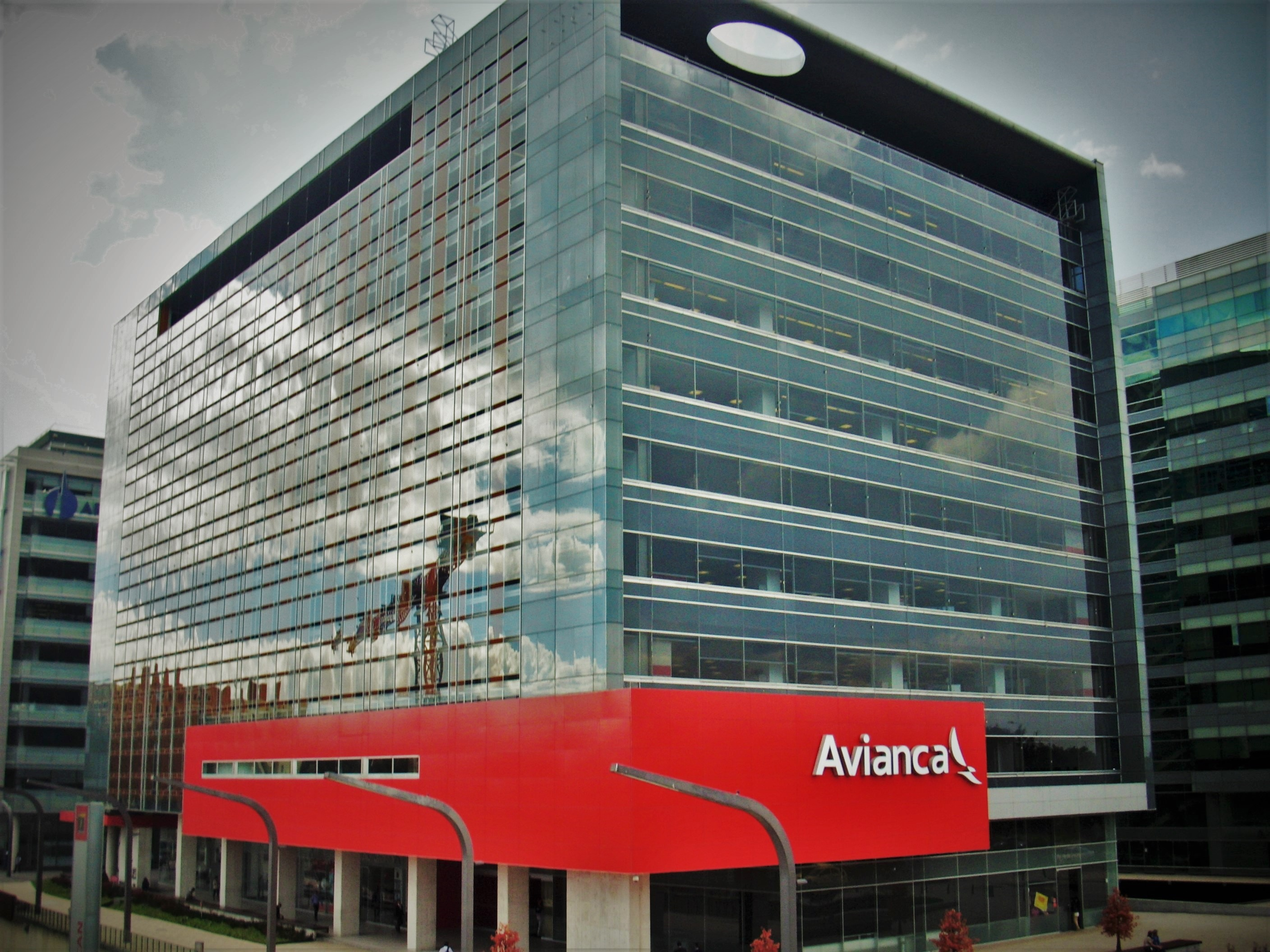 Avianca head office, Avianca Tower, in the Ciudad Empresarial Sarmiento Angulo